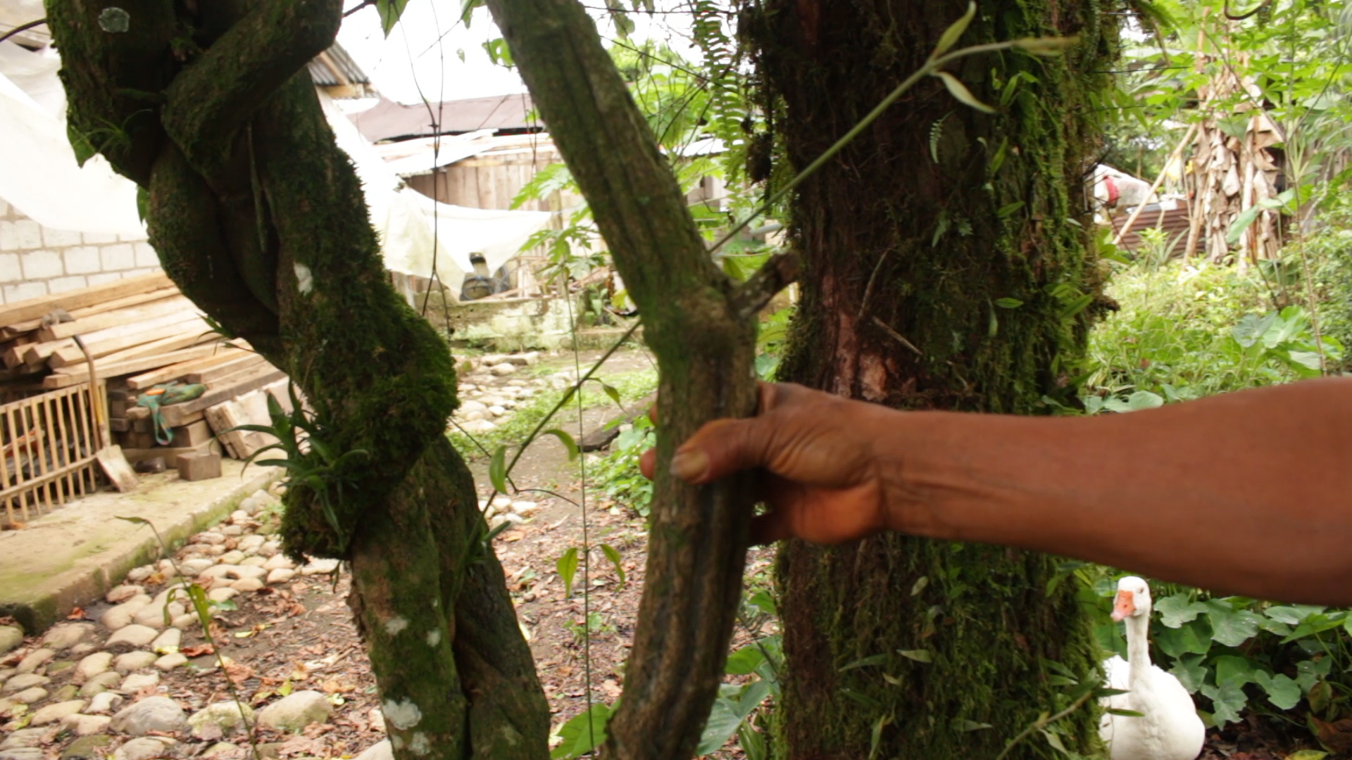 Planta medicinal que usan los Quijos.